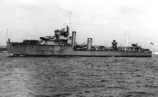 HMS Vanoc, pictured in March 1939. In April 1941 the Vanoc rammed and sank U-100, with the loss of all but six of U-100's crew. The skipper Joachim Schepke was amongst those lost.